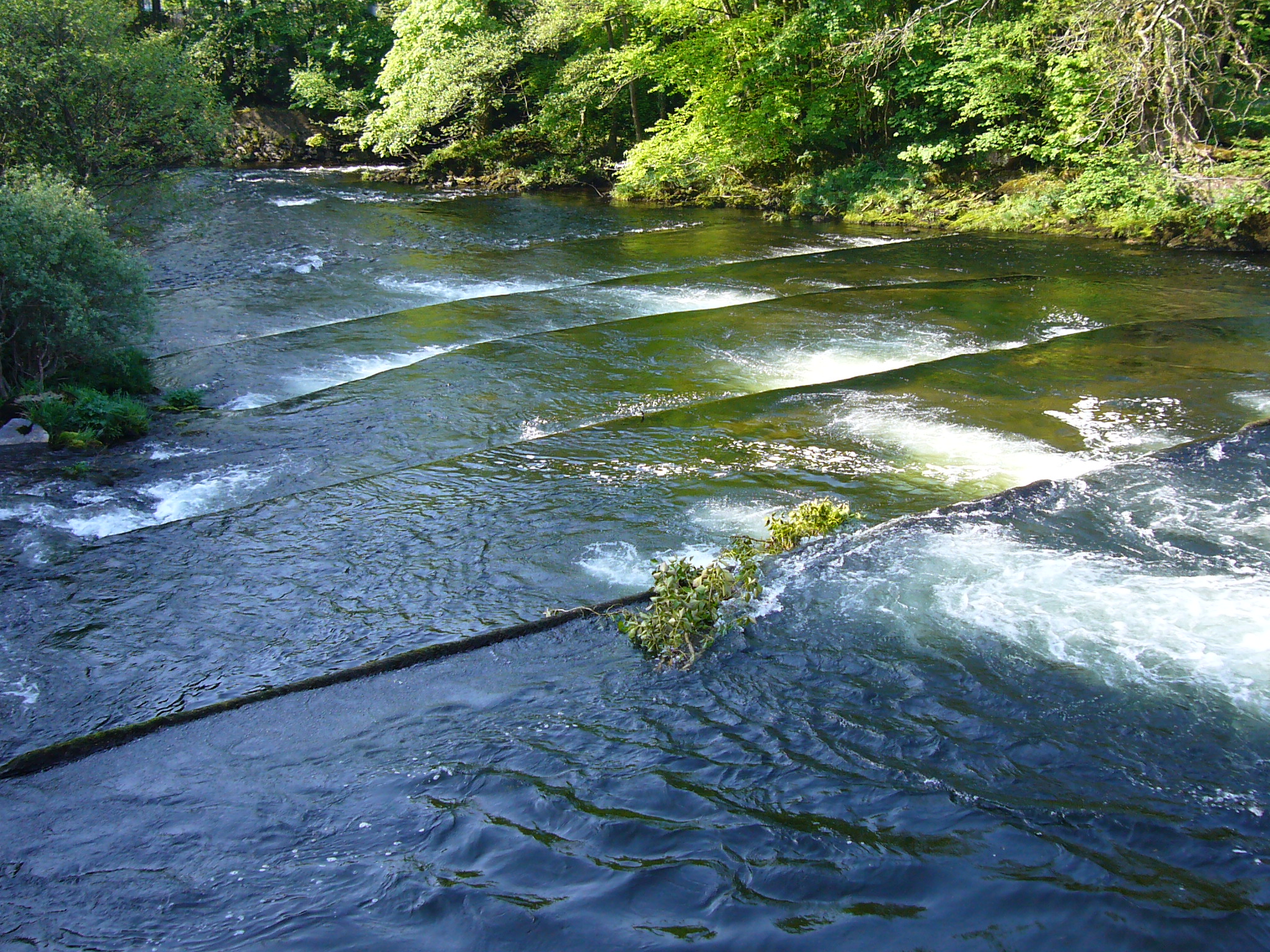 This shows the lower part of an old form of fish ladder on the River Dart at "Salmon Leap" in Devon. As the name suggests it was built to facilitate salmon going up river to spawn.